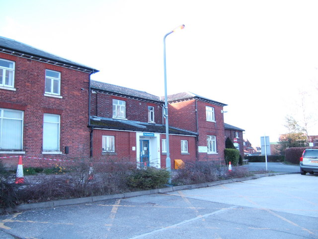 Admin building, Pembury Hospital